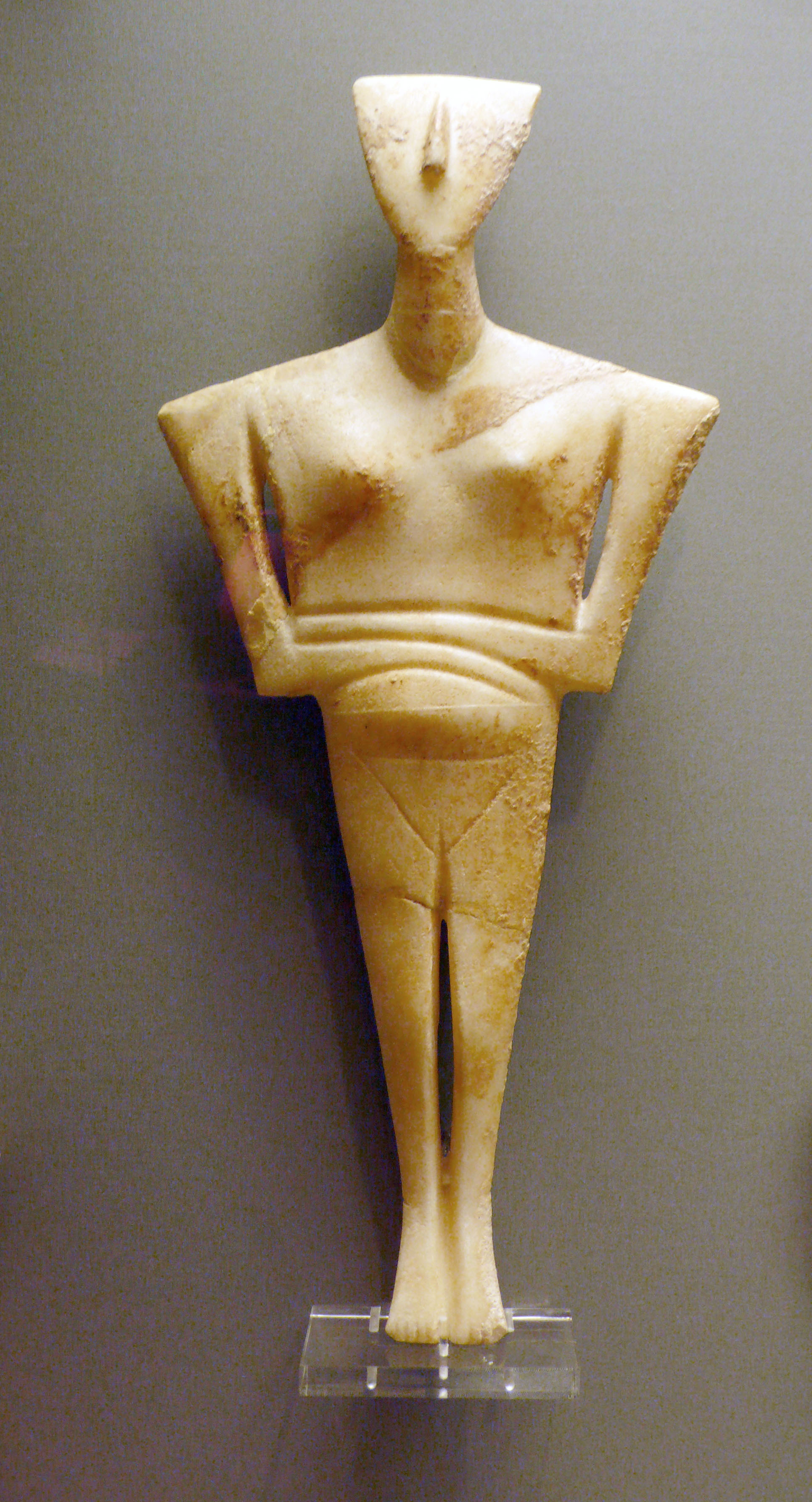 Marble figurine of the folded arm type (Dokathismata variety). Chalandriani necropolis in Syros. Early Cycladic II period, Culture of Keros-Syros , 2800-2300 BC. National Archaeological Museum, Athens.